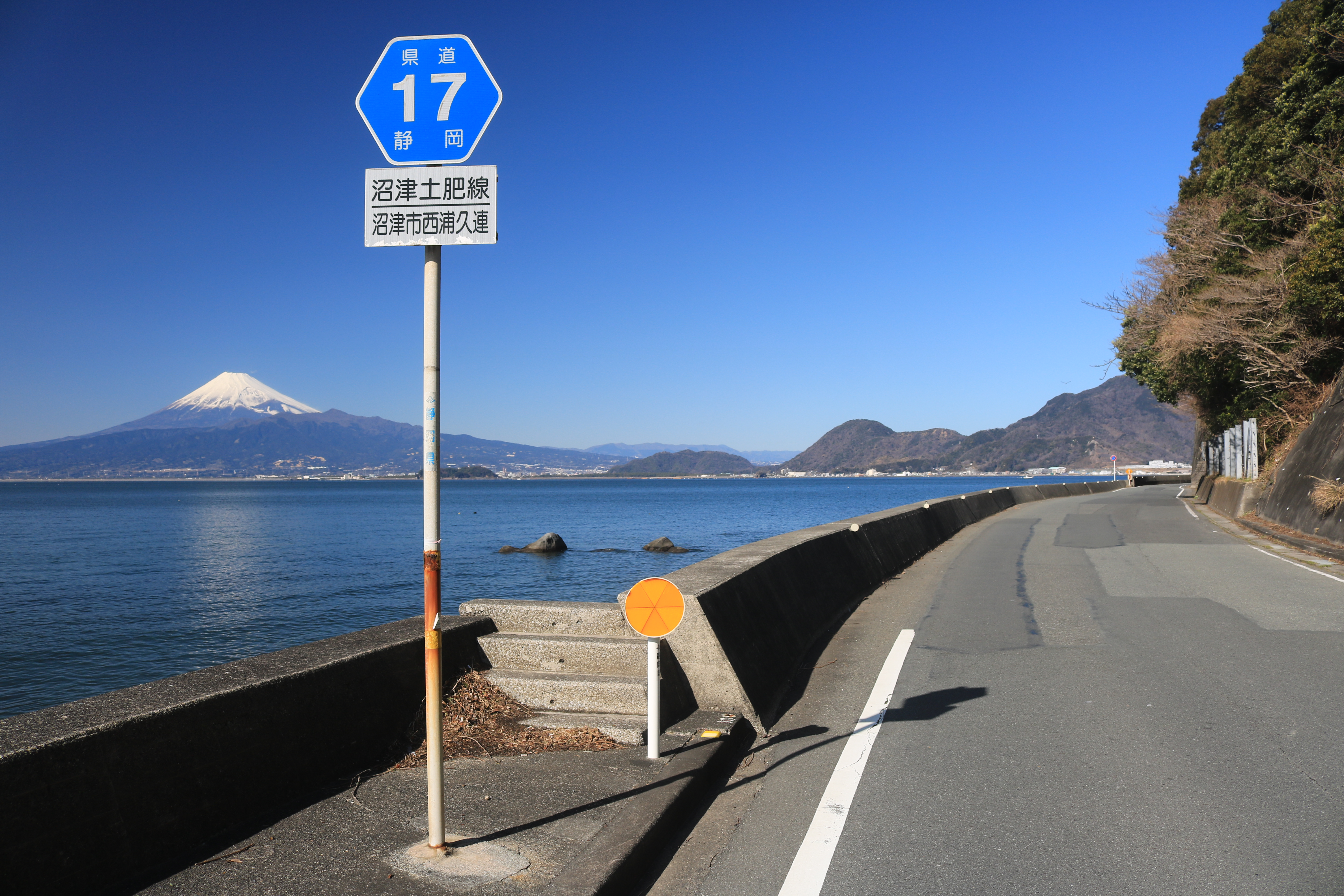 Shizuoka Prefectural Road Route 17 and Mount Fuji in Nishiuraenashi, Numazu, Shizuoka Prefecture, Japan.